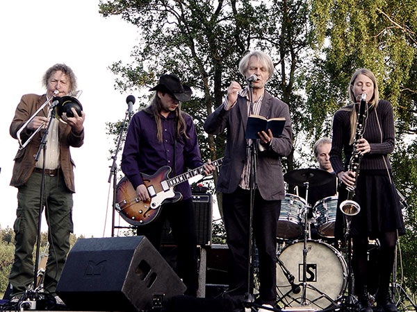 Singvogel optræder ved en litteraturfestival I Brabrand (2010)